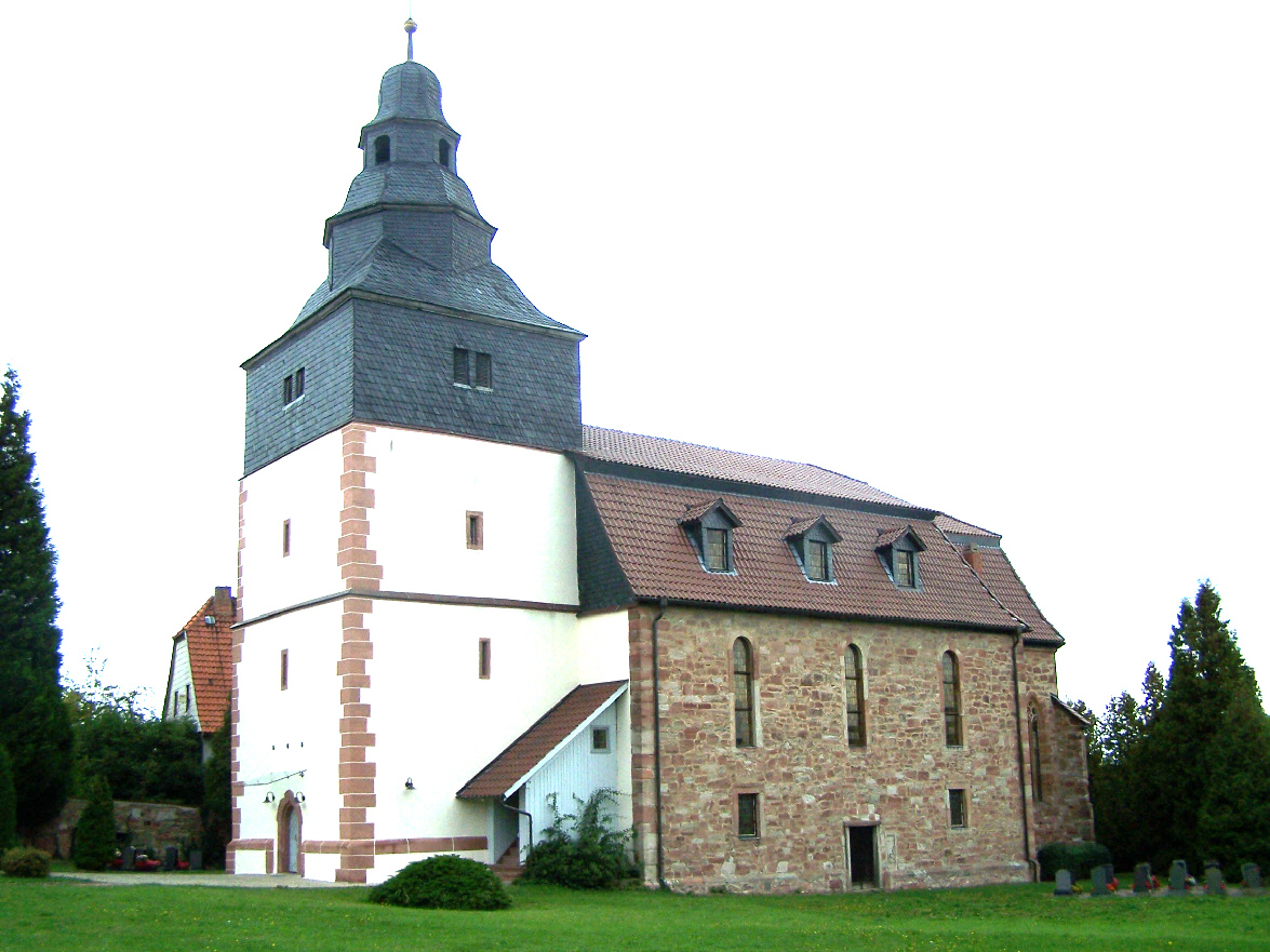 The church in Dankmarshausen.